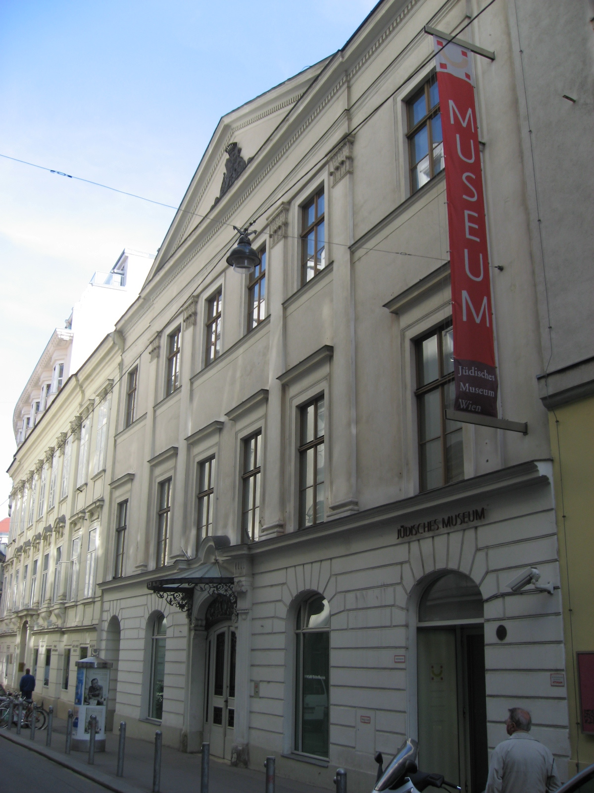 Palais Eskeles in Vienna's I. district